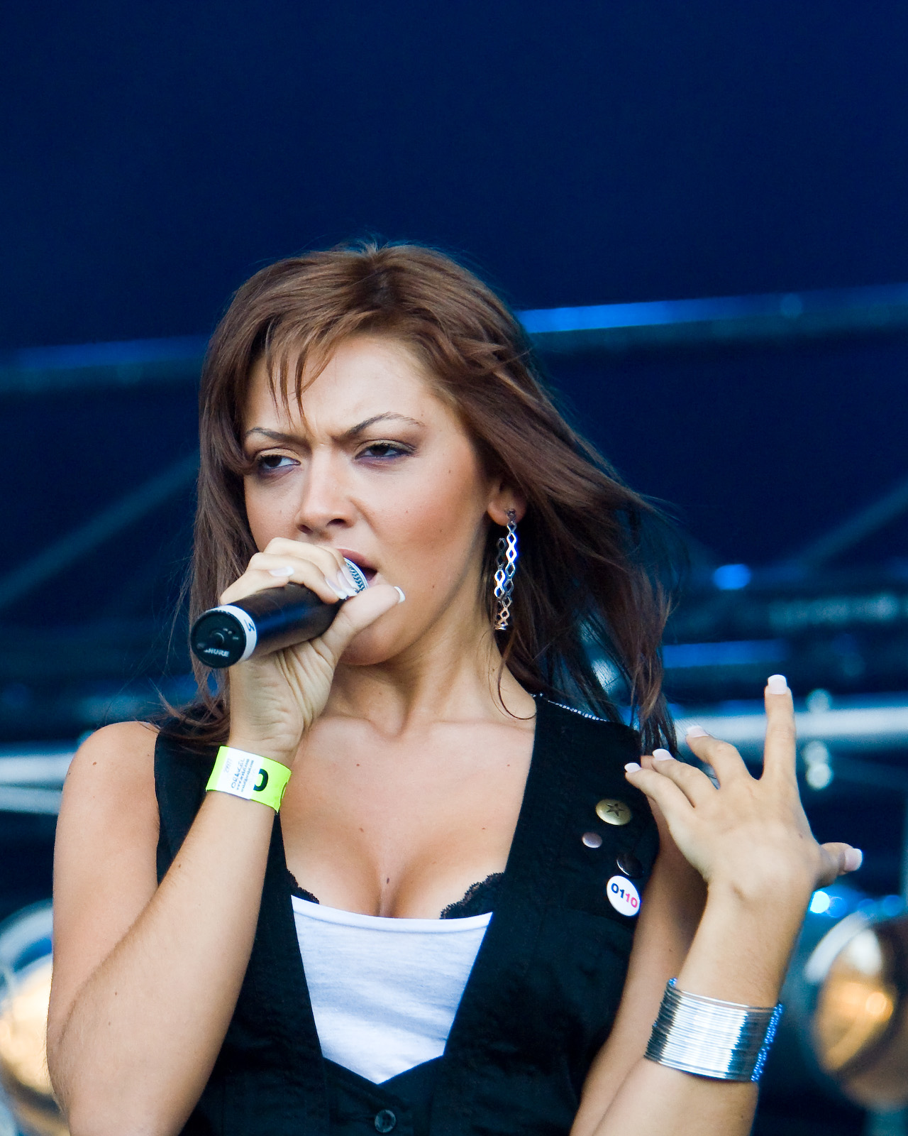 Hadise, 0110 concert on 1 November 2006 in Gent, Belgium